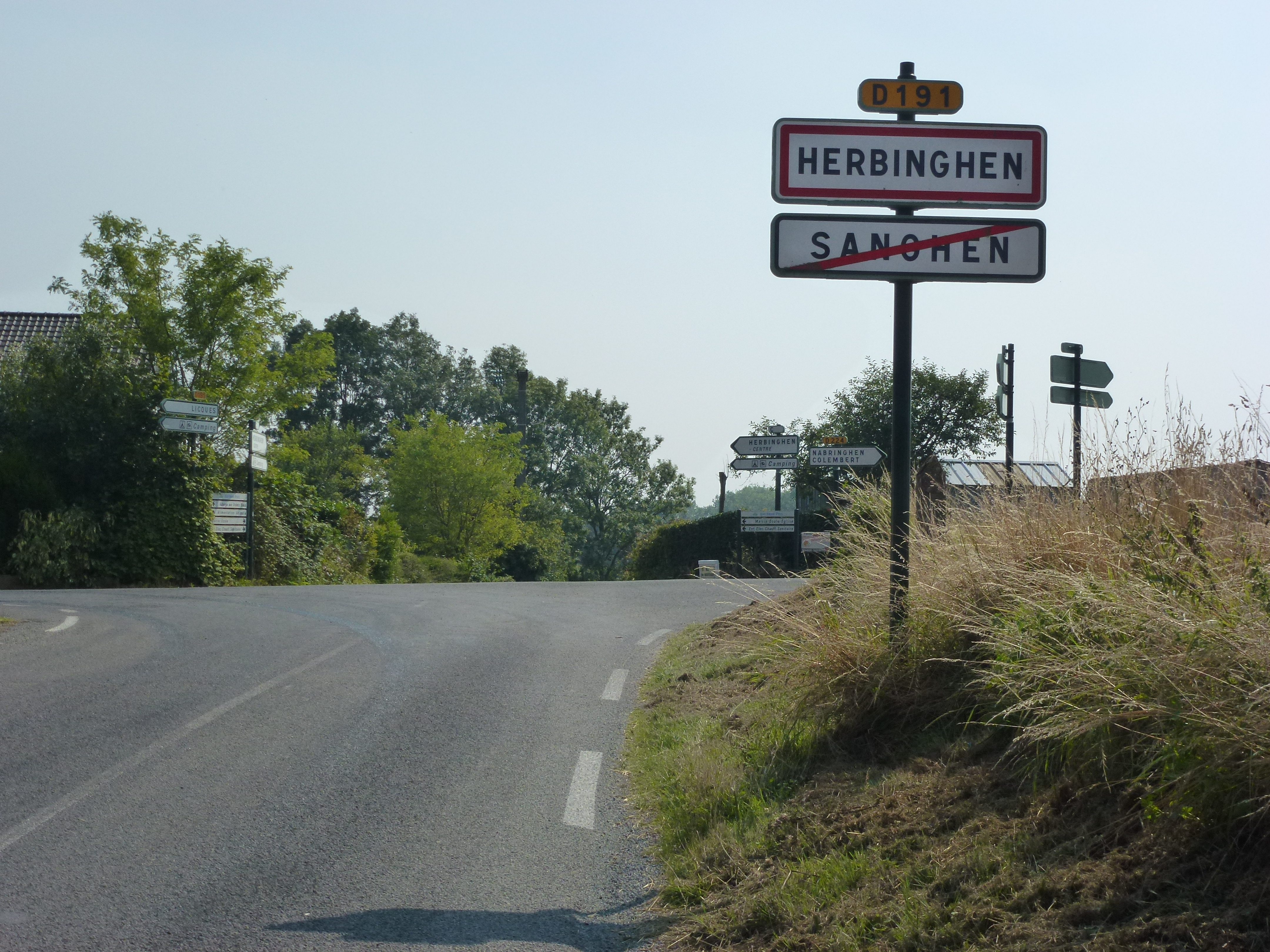 Herbinghen ~ Sanghen (Pas-de-Calais) city limit sign